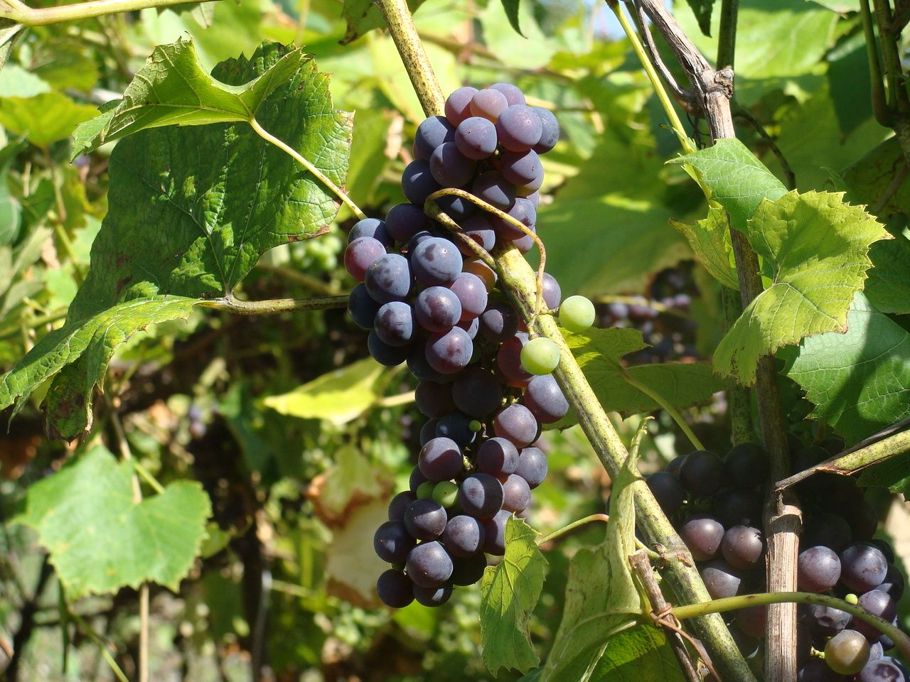 Pogórze Bukowskie, a subcarpathian red wine grapes.